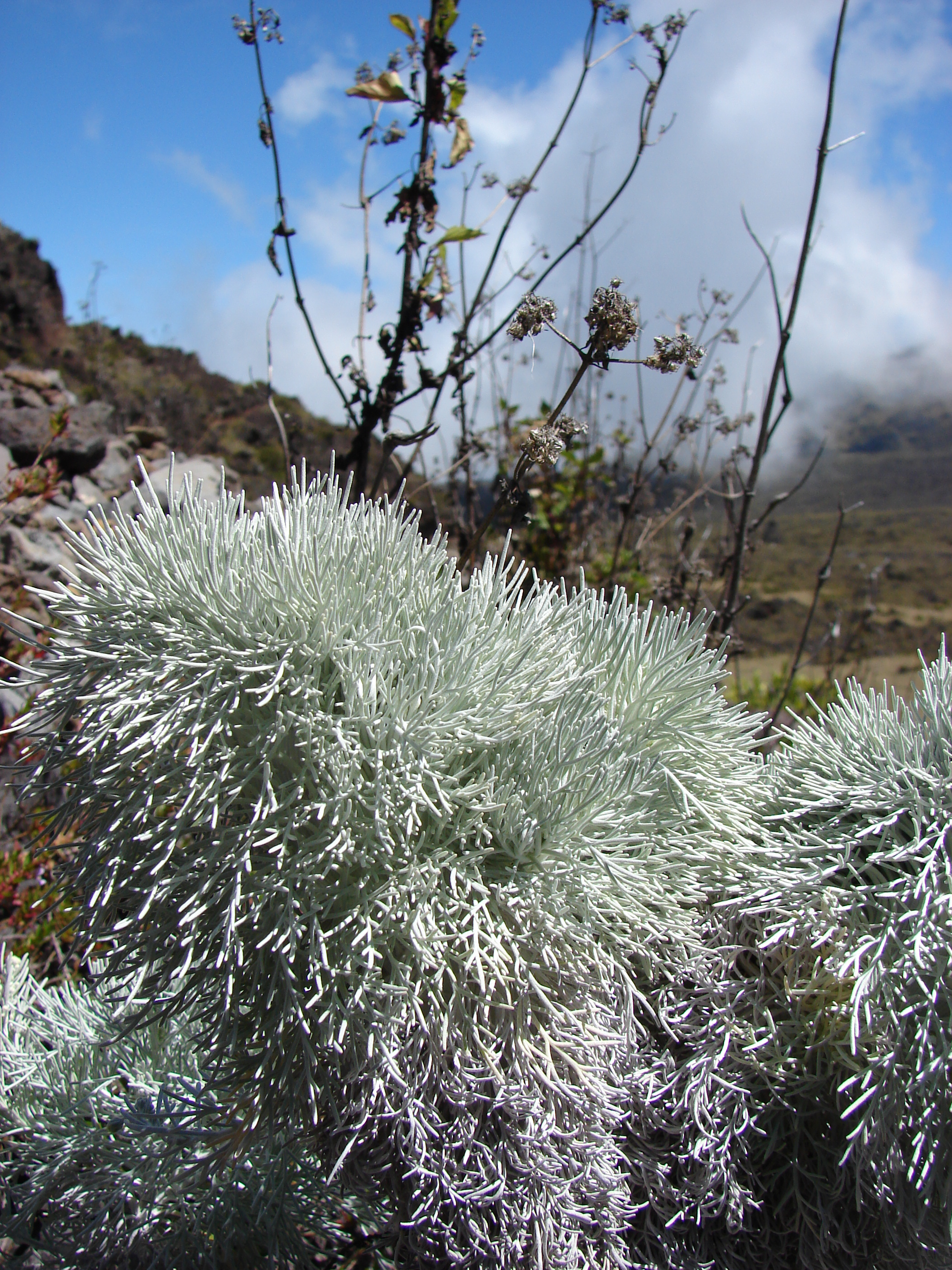 Artemisia mauiensis (habit). Location: Maui, Old Switchbacks Trail Haleakala National Park